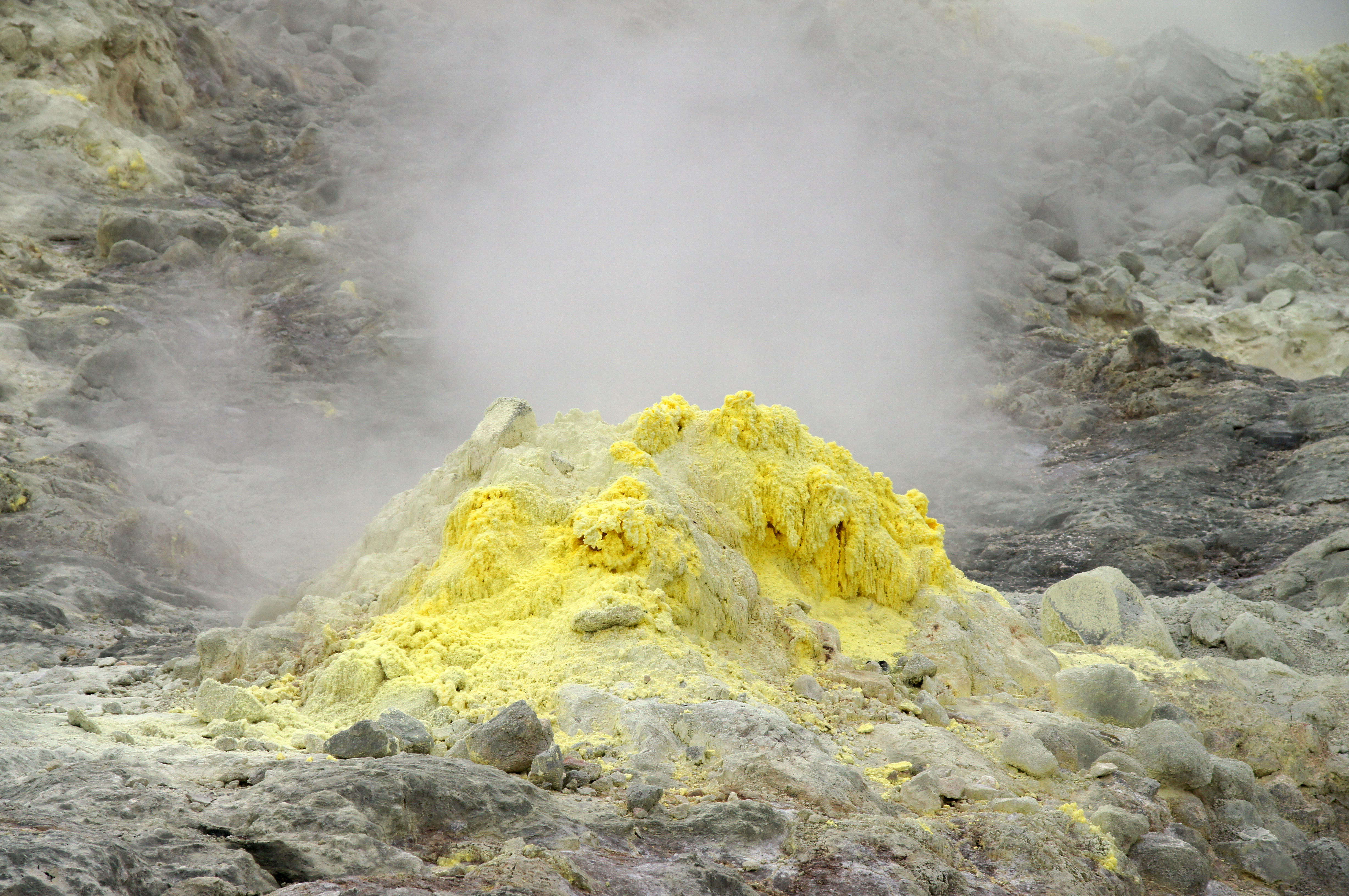 Mount Iō in Teshikaga, Hokkaido prefecture, Japan